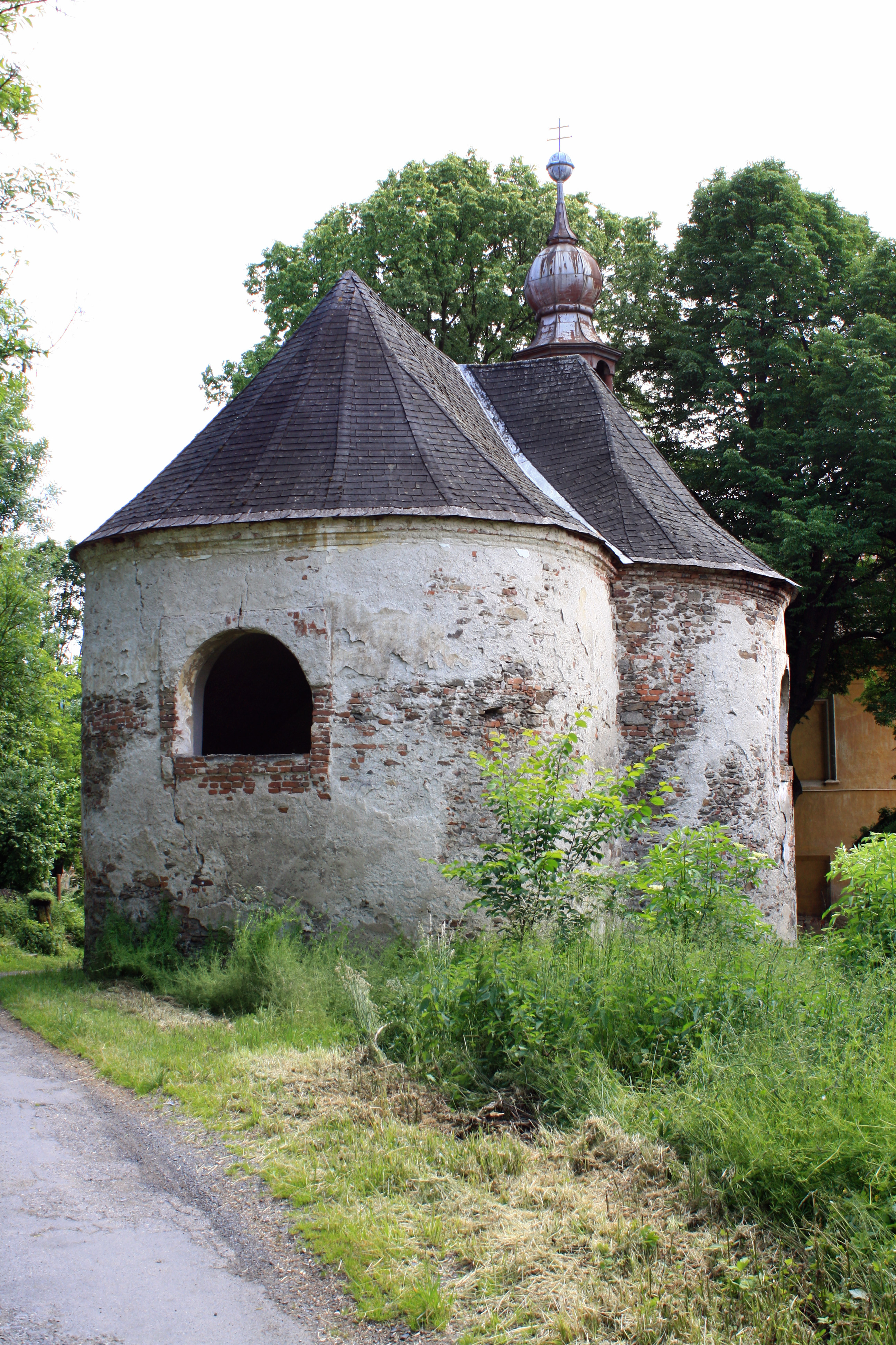 Holy Trinity Chapel in Nový Čestín, part of Mochtín, Czech Republic